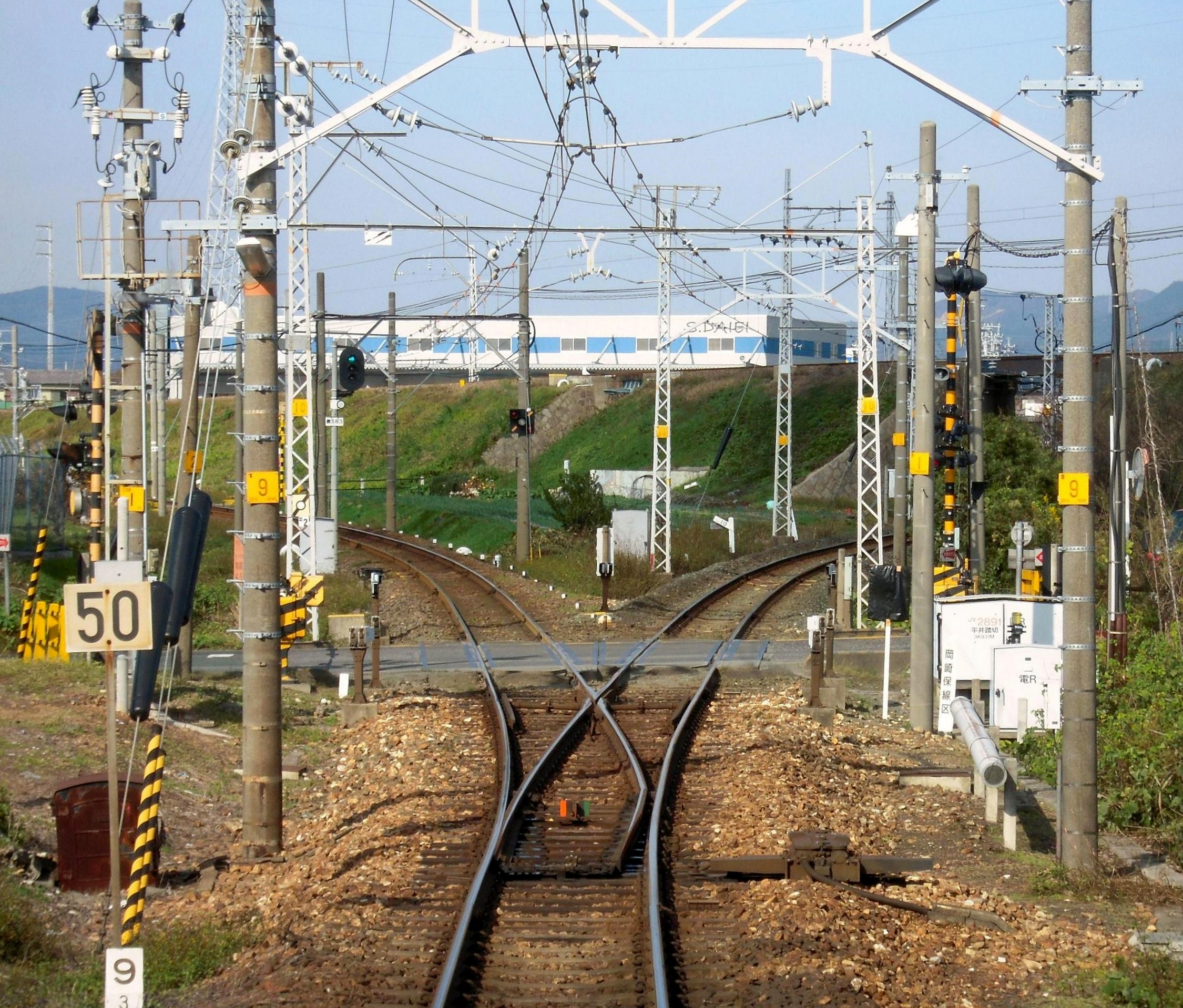 JR-Iida line & Nagoya railroad company Hirai signal station